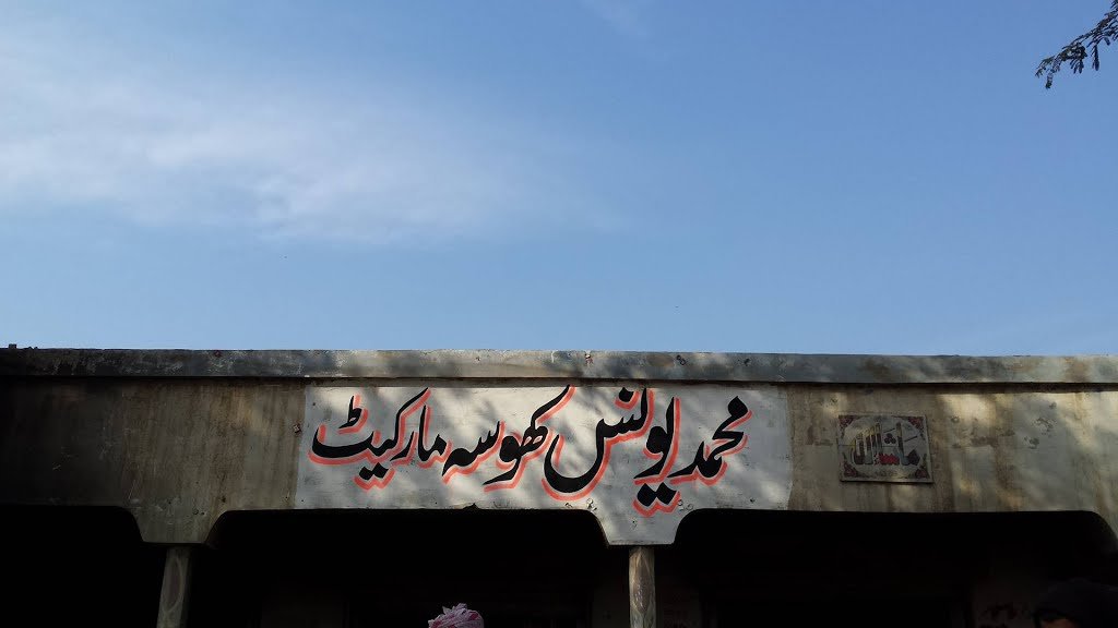 YOUNIS